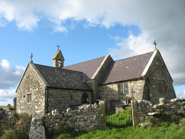 Eglwys Peulan Sant, Llanbeulan